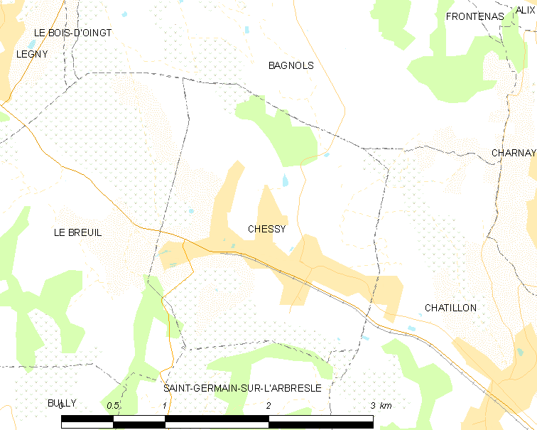 Map of French municipality